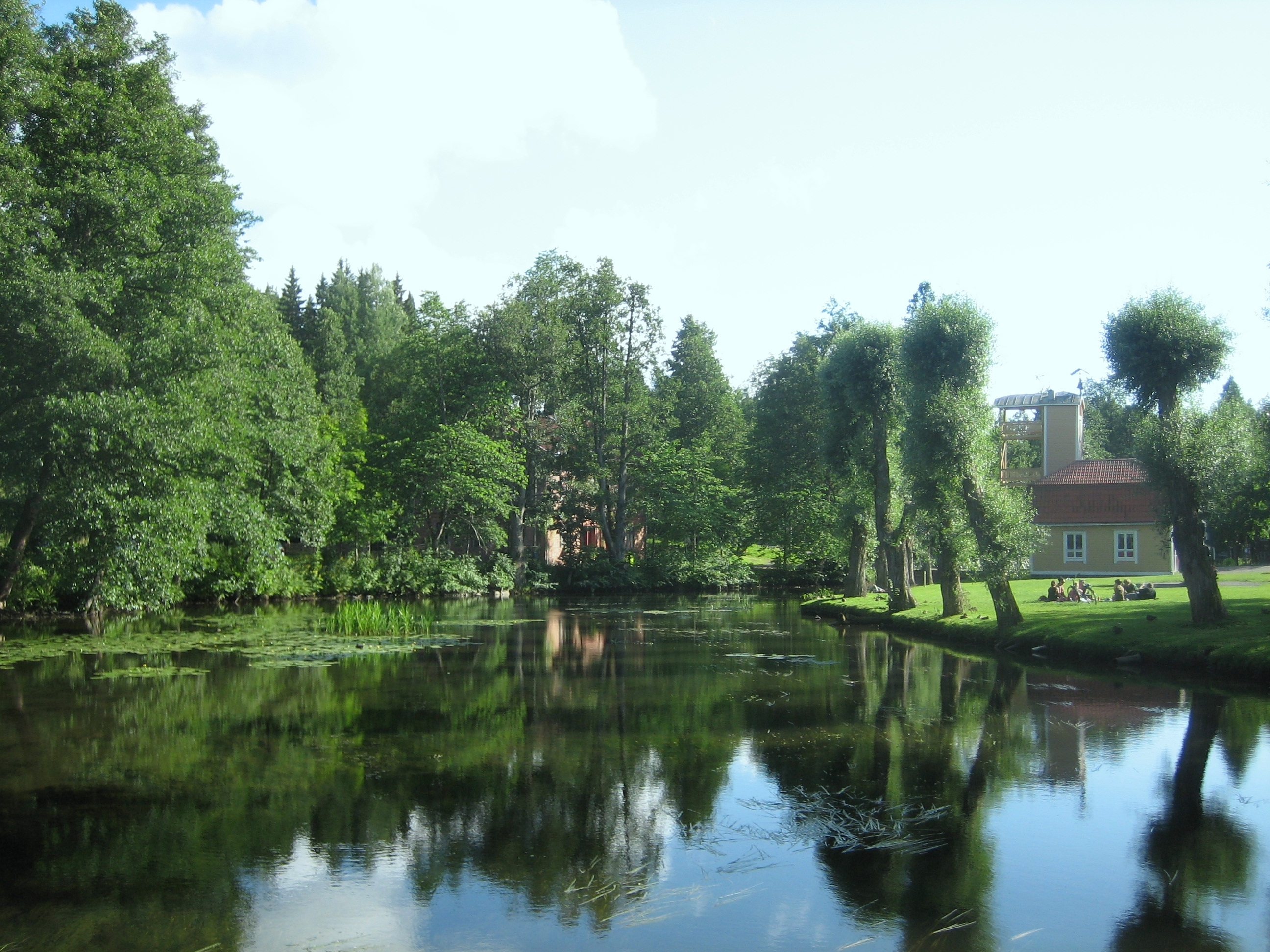 A scenary of the Fiskars Village in Pohja, Finland. The Fiskars Ironworks were established in 1649, and the village surrounds the Ironworks.